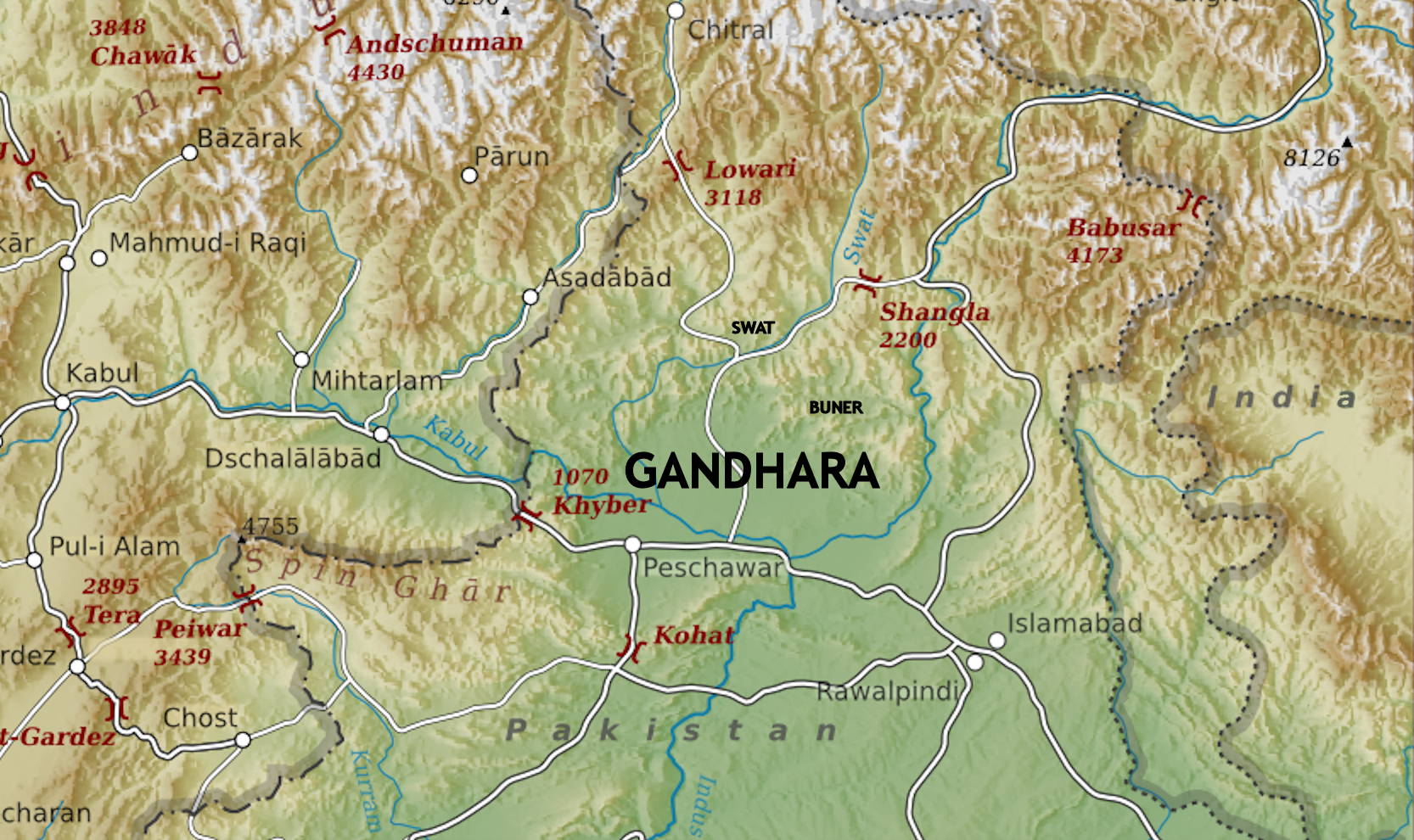 Gandhara map